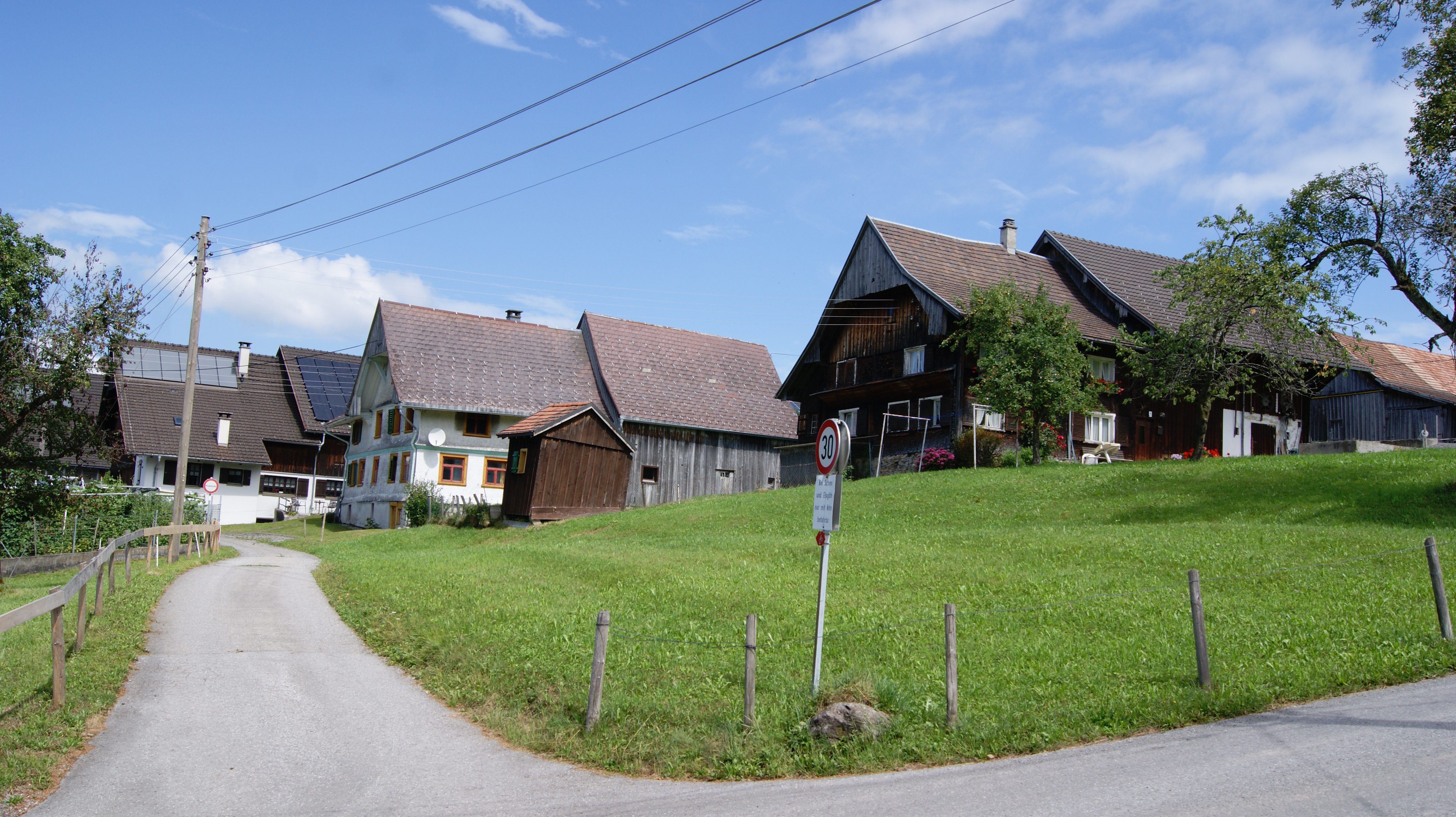 Hill "Unterfallberg" in Dornbirn, Vorarlberg, Austria. Stüben - Houses.